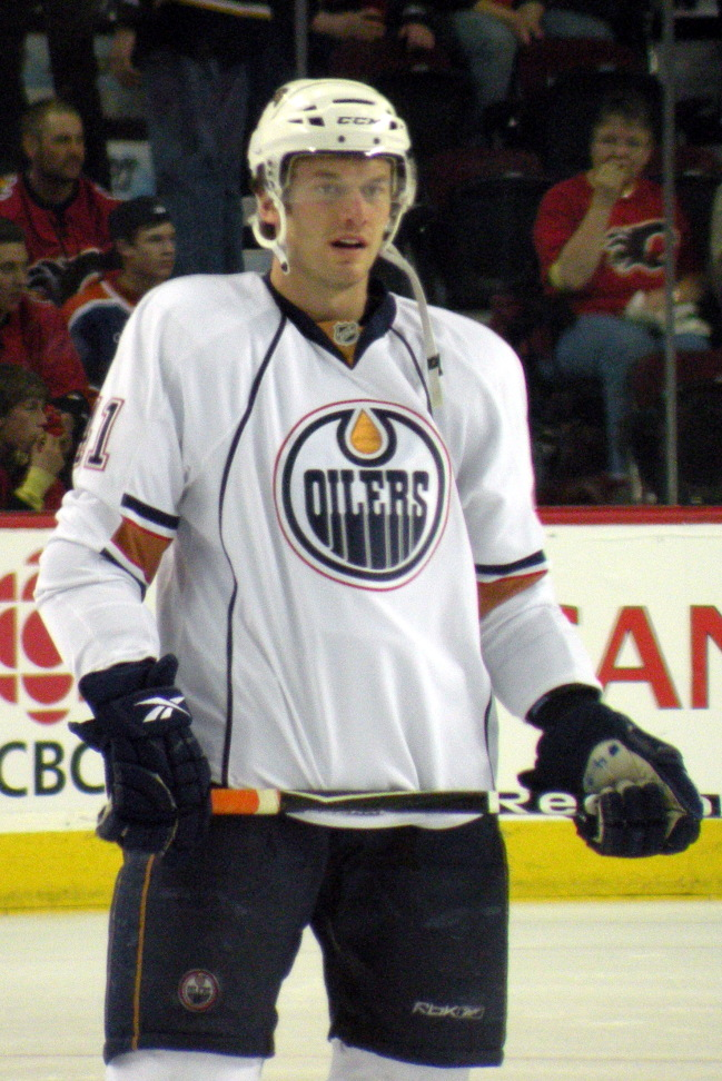 Edmonton Oilers defenceman Taylor Chorney during warmup prior to a National Hockey League game against the Calgary Flames in Calgary.